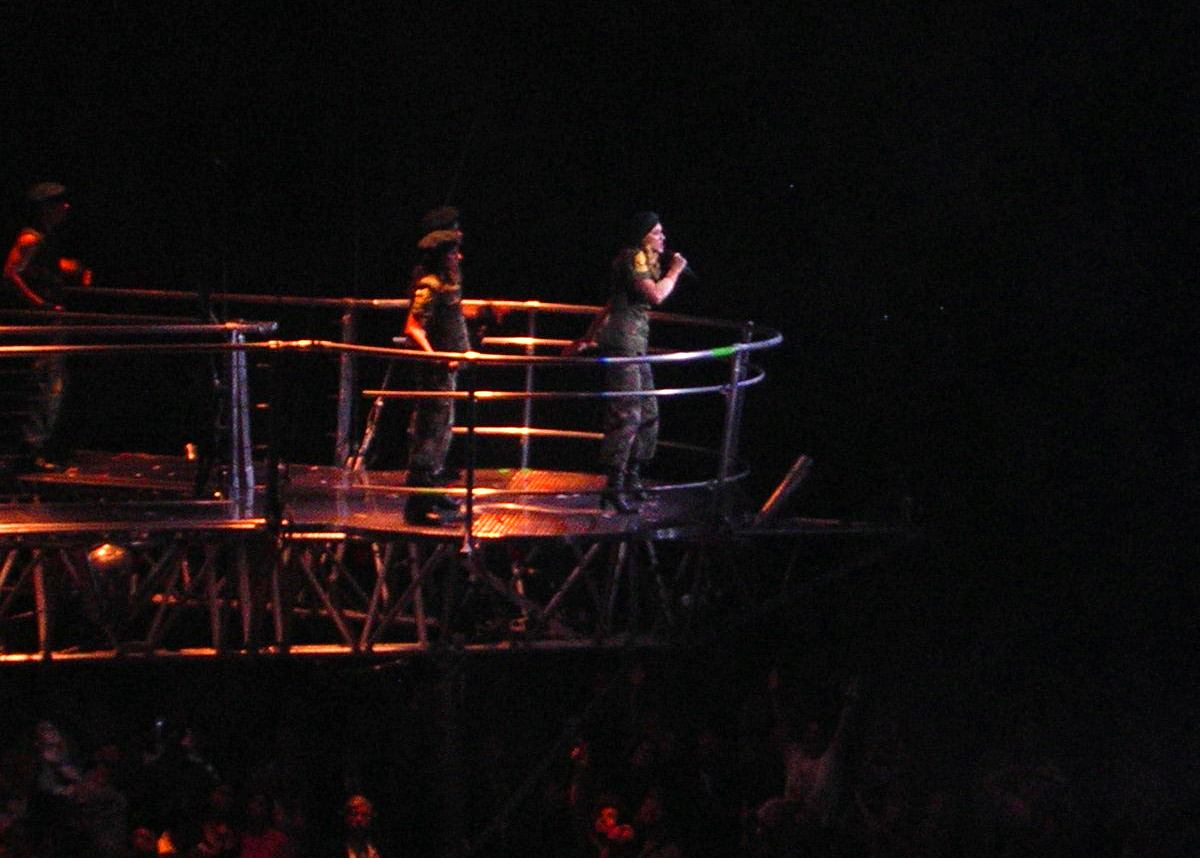 Madonna performing "American Life"